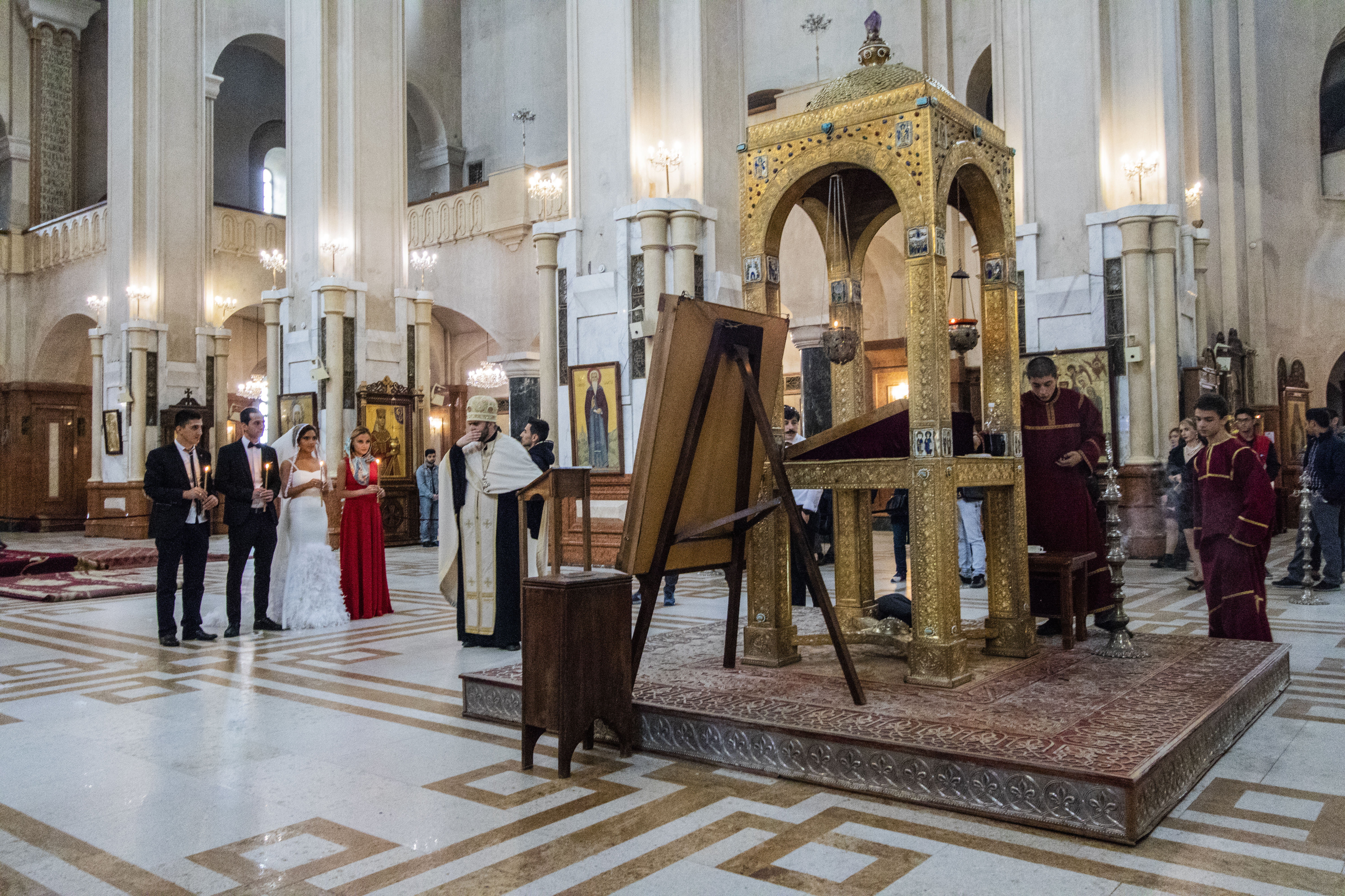 The Holy Trinity Cathedral of Tbilisi commonly known as Sameba is the main cathedral of the Georgian Orthodox Church located in Tbilisi, the capital of Georgia. Photo by: Mostafa Meraji